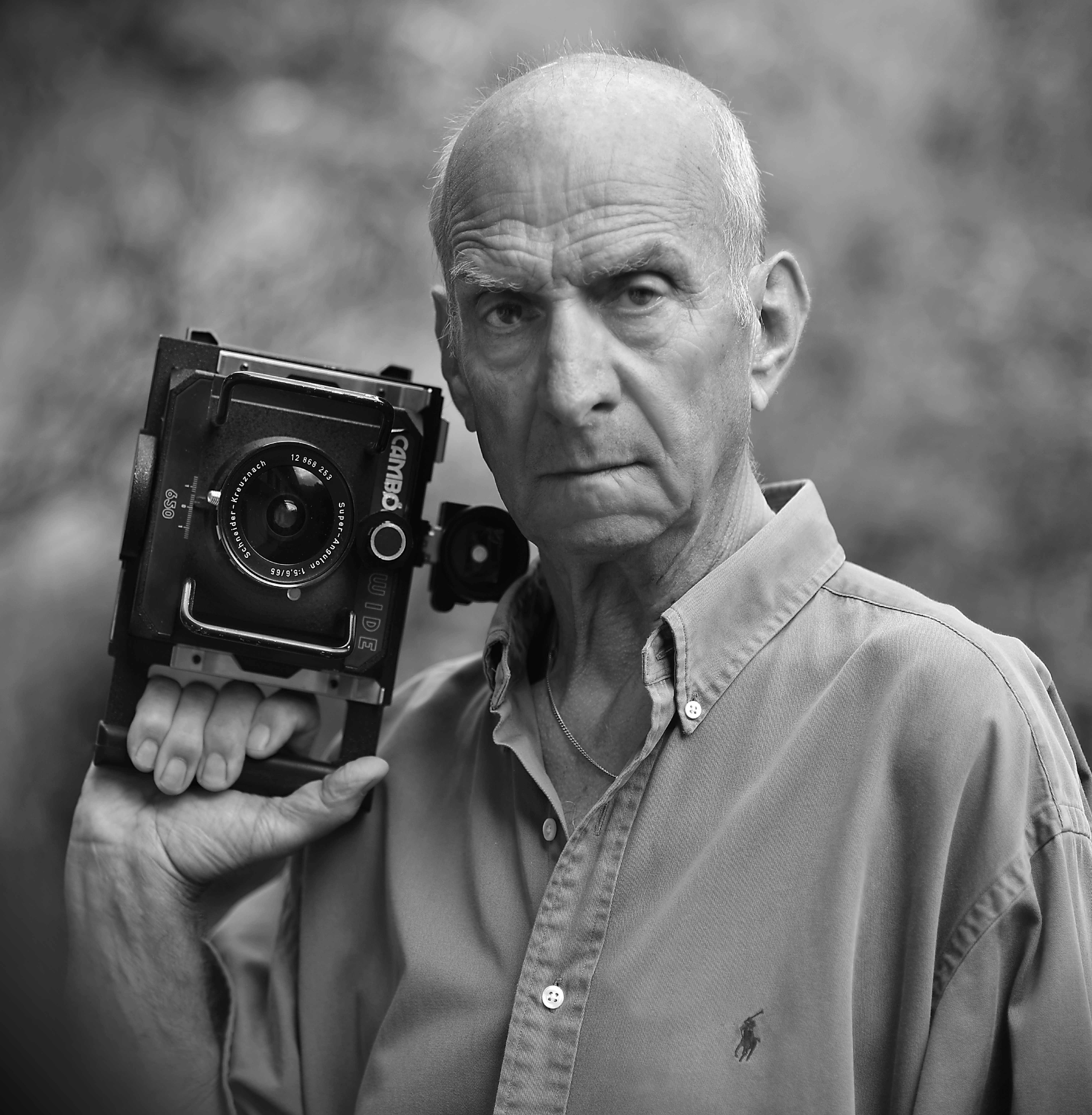 Portrait Jean Turco 2019